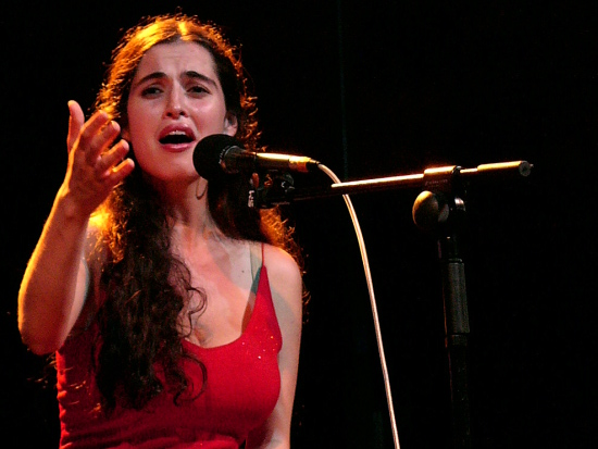 Catalan singer Sílvia Pérez Cruz performing with Las Migas in Dénia